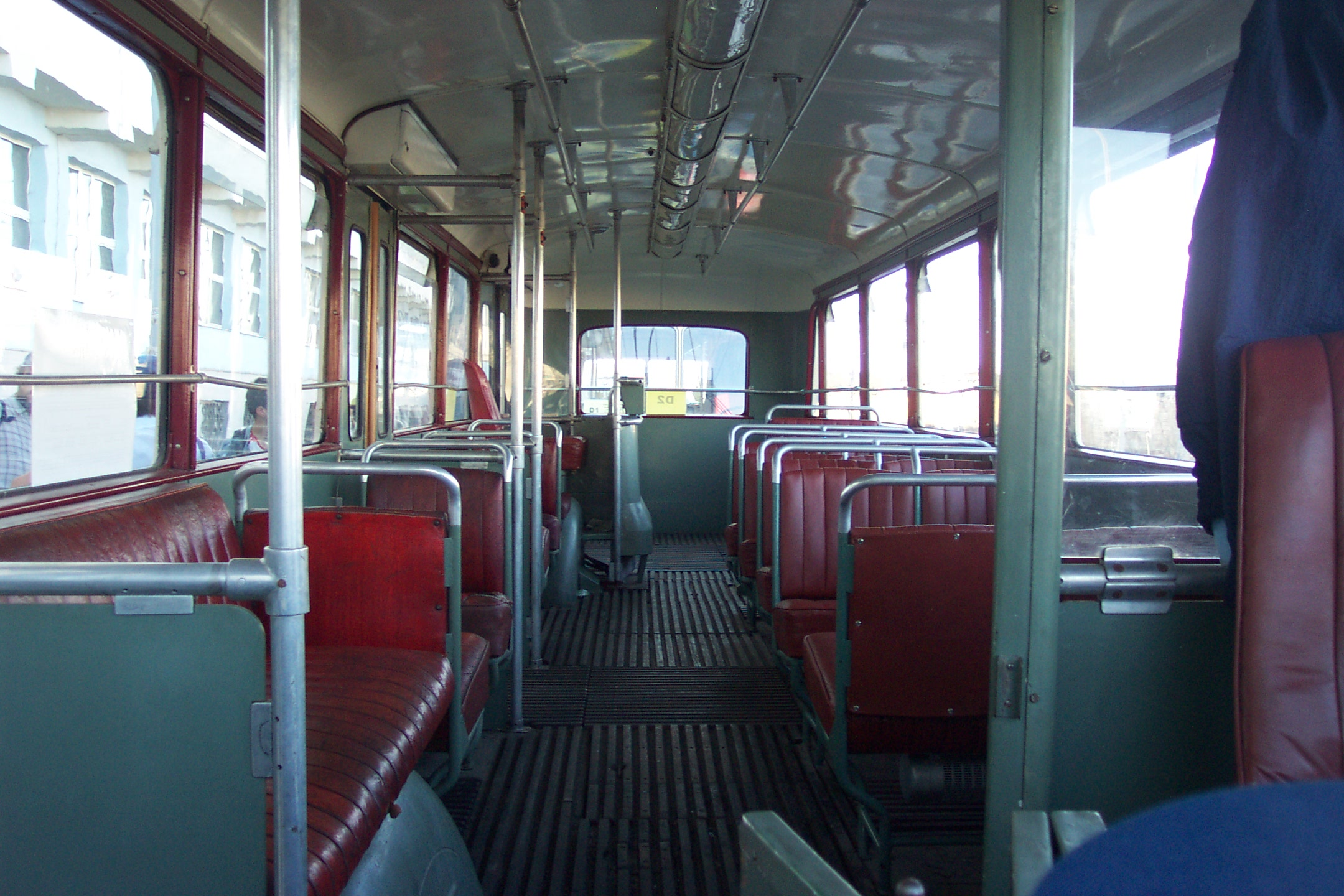 Plzeň, historical trolleybus type 6Tr, interieur - Interiér historického trolejbusu typu 6Tr